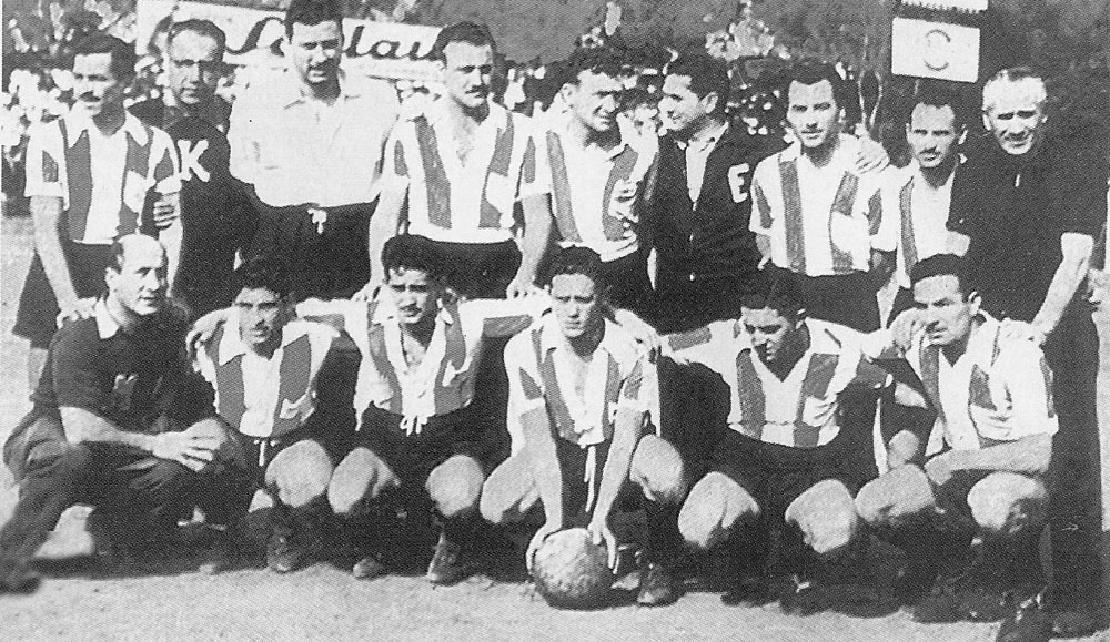 The Racing Club team of 1951 that won the Primera División title that year, totalizing 3 consecutive titles.